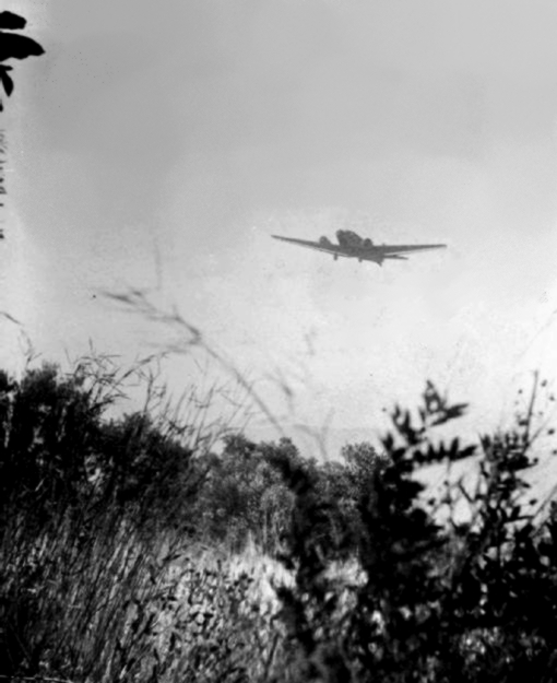 A German Junkers Ju 52/3m troop carrying aircraft flying low over Crete during the initial stages of the battle. By the evening of 20 May some 6000 German troops were on the island, the final total brought by air amounting to 22,000.